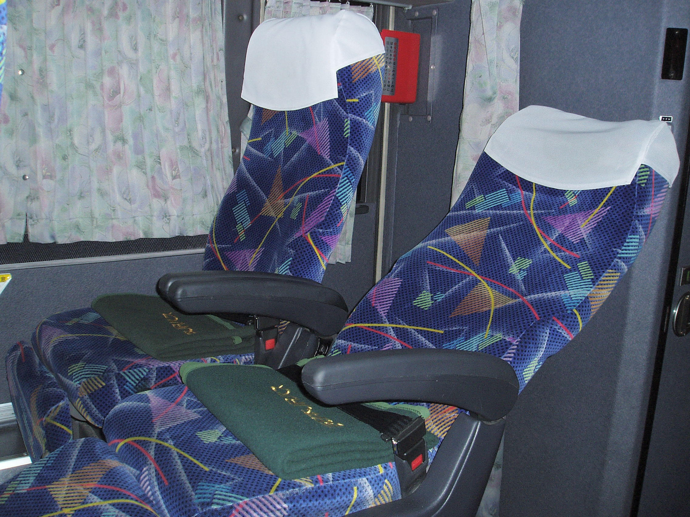 Recliner (the first floor seat of Nishinihon JR bus 744-2991)